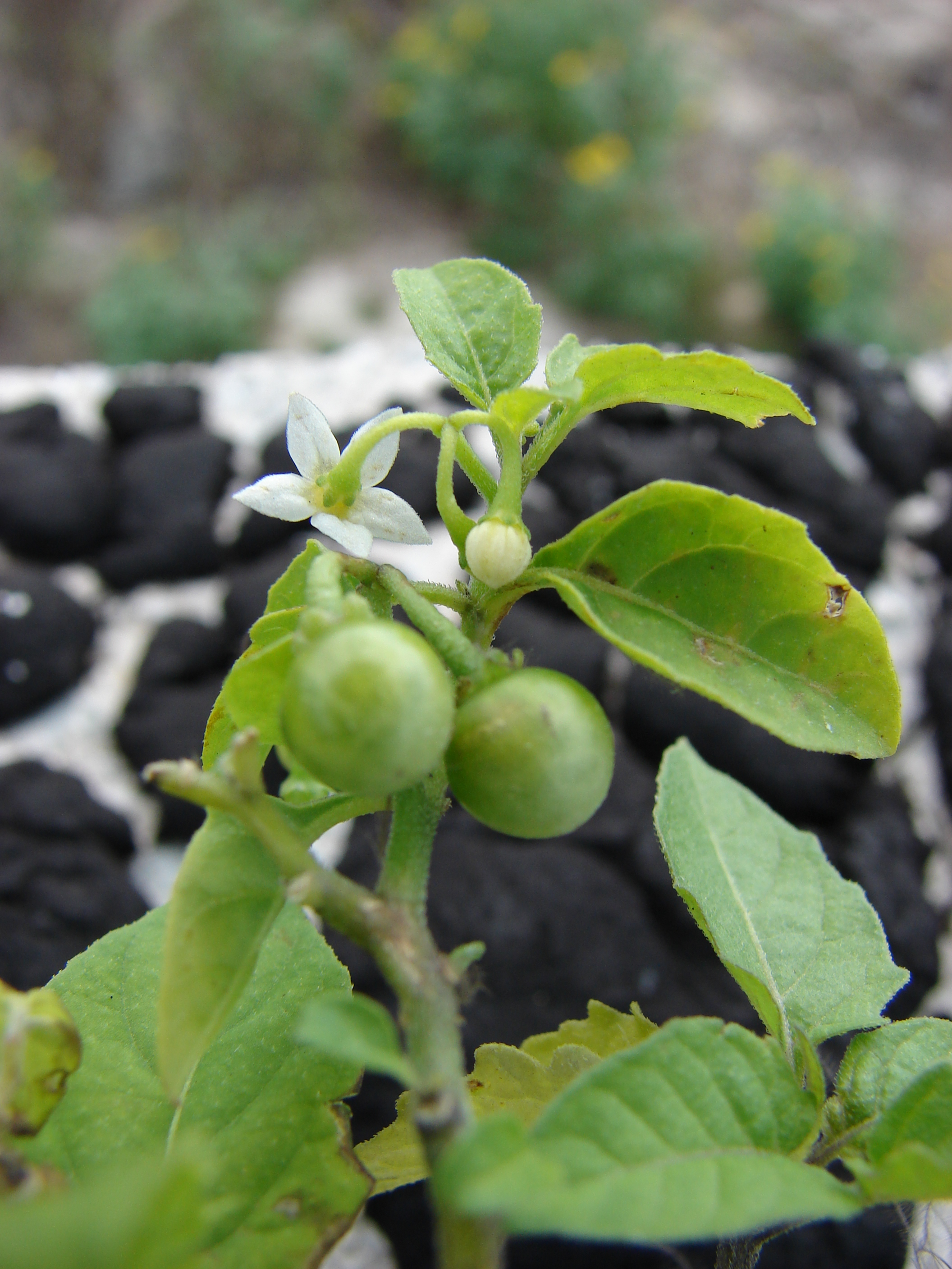 Solanum americanum (green fruit). Location: Midway Atoll, Radar hill field Sand Island